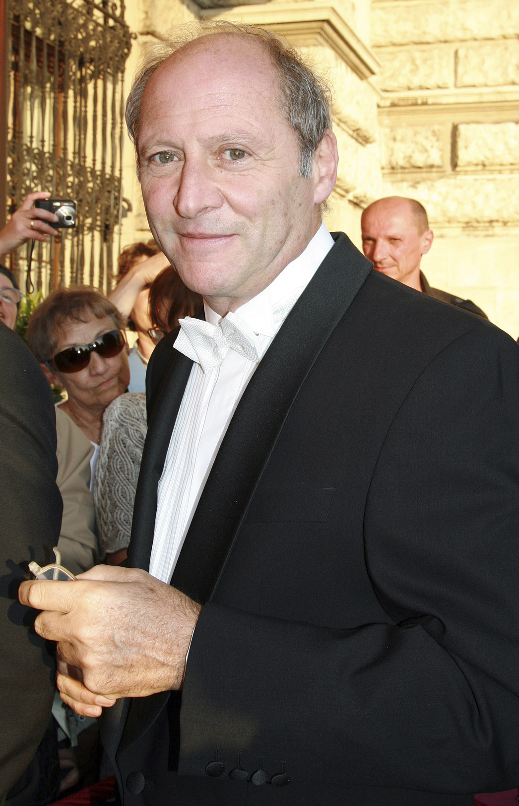 Actress Robert Dornhelm at the Romy TV awards (Hofburg Imperial Palace in Vienna)